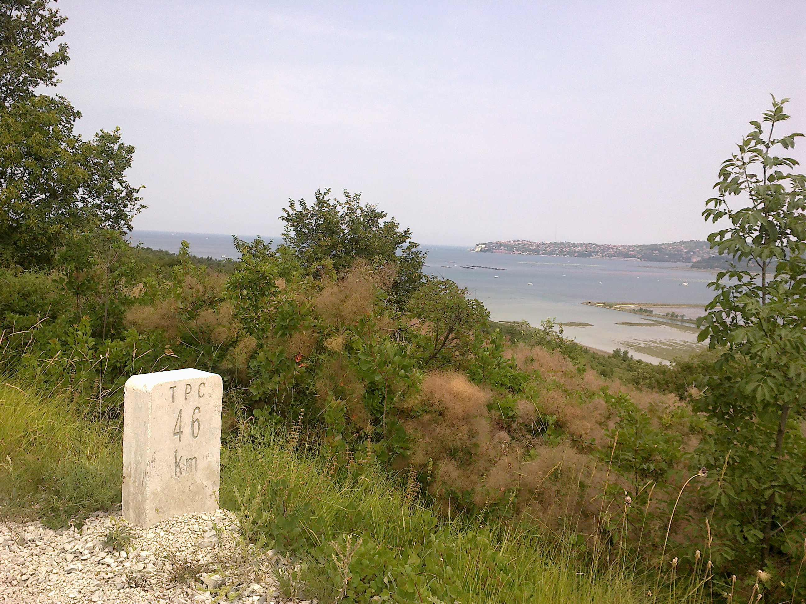 TPC (Parenzana railway) Marking above Sečovlje, on current bike path. Portorož/Portorose at the back